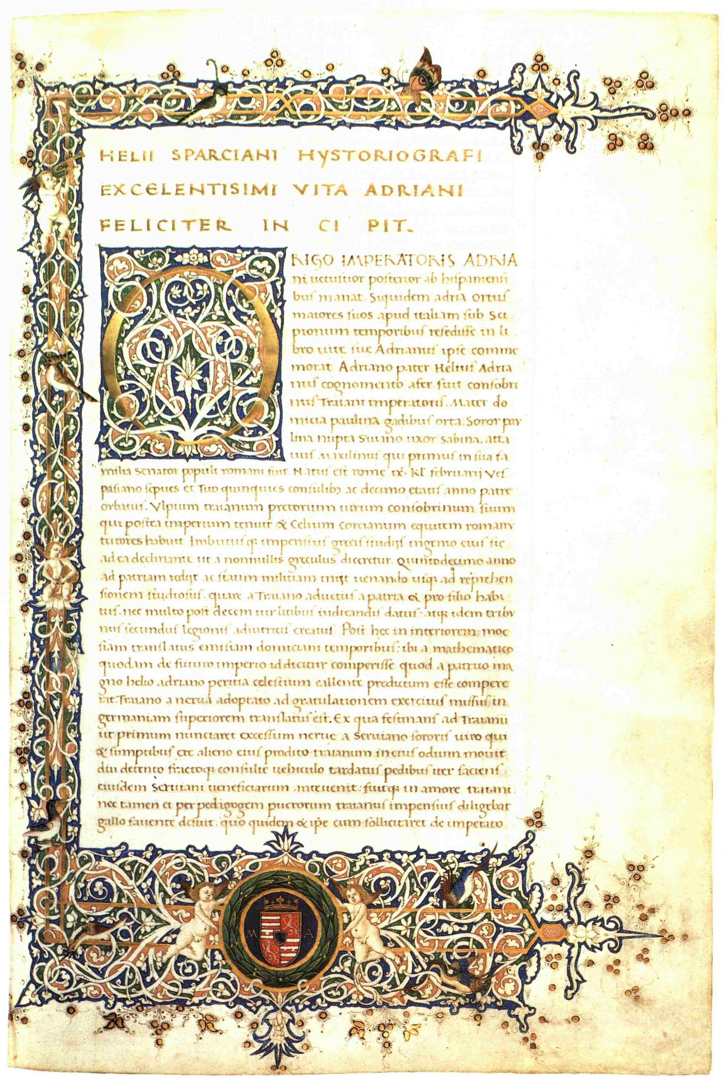 The beginning of the „Life of Emperor Hadrian" in the „Augustan History“. Manuscript: Budapest, Egyetemi Könyvtár, Cod. Lat. 7.